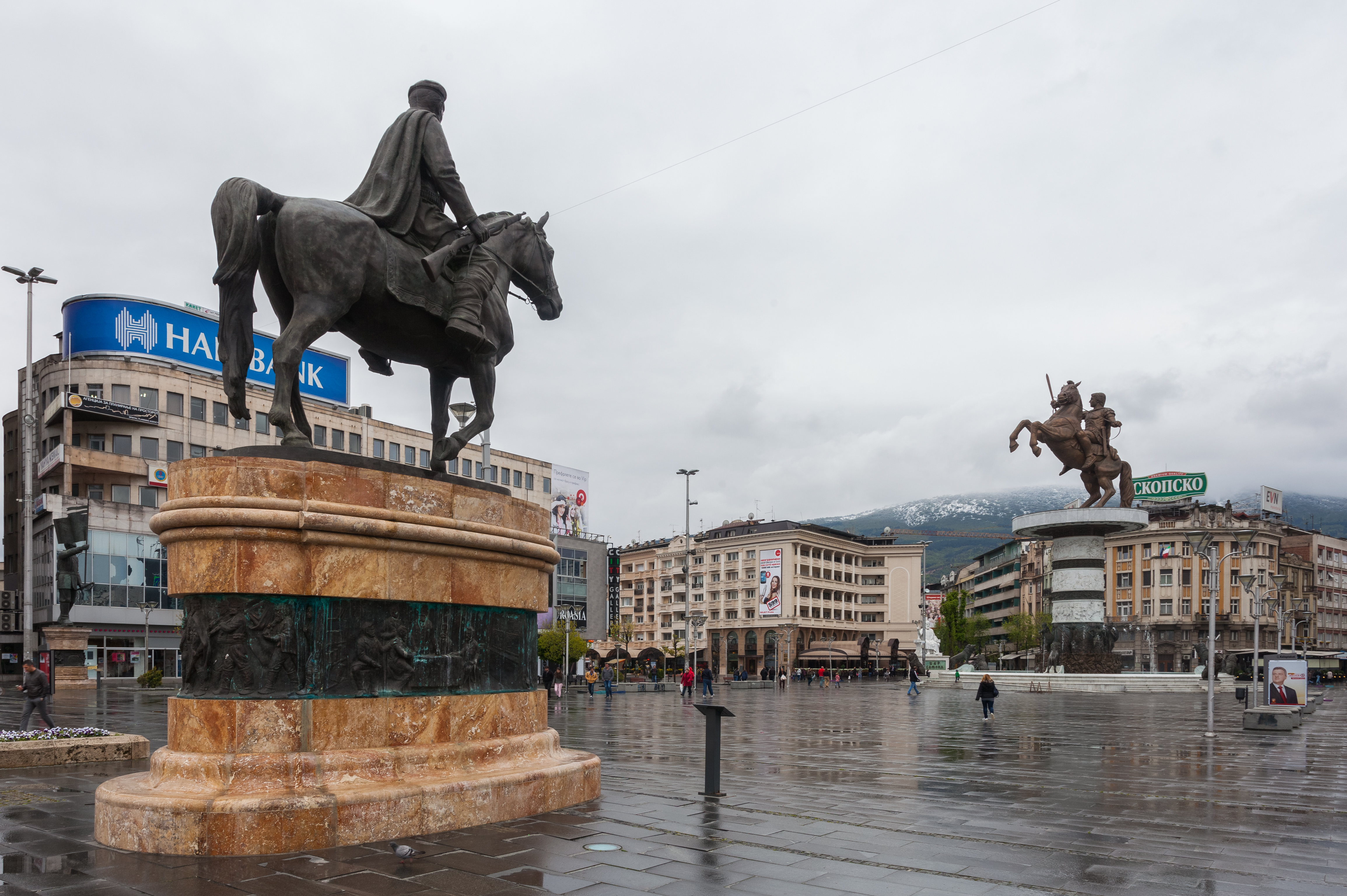 Macedonia Square, Skopje, Republic of Macedonia